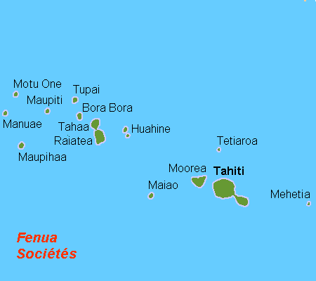 Map (rough) of the Society Islands, French Polynesia, own work composed from various mapreferences